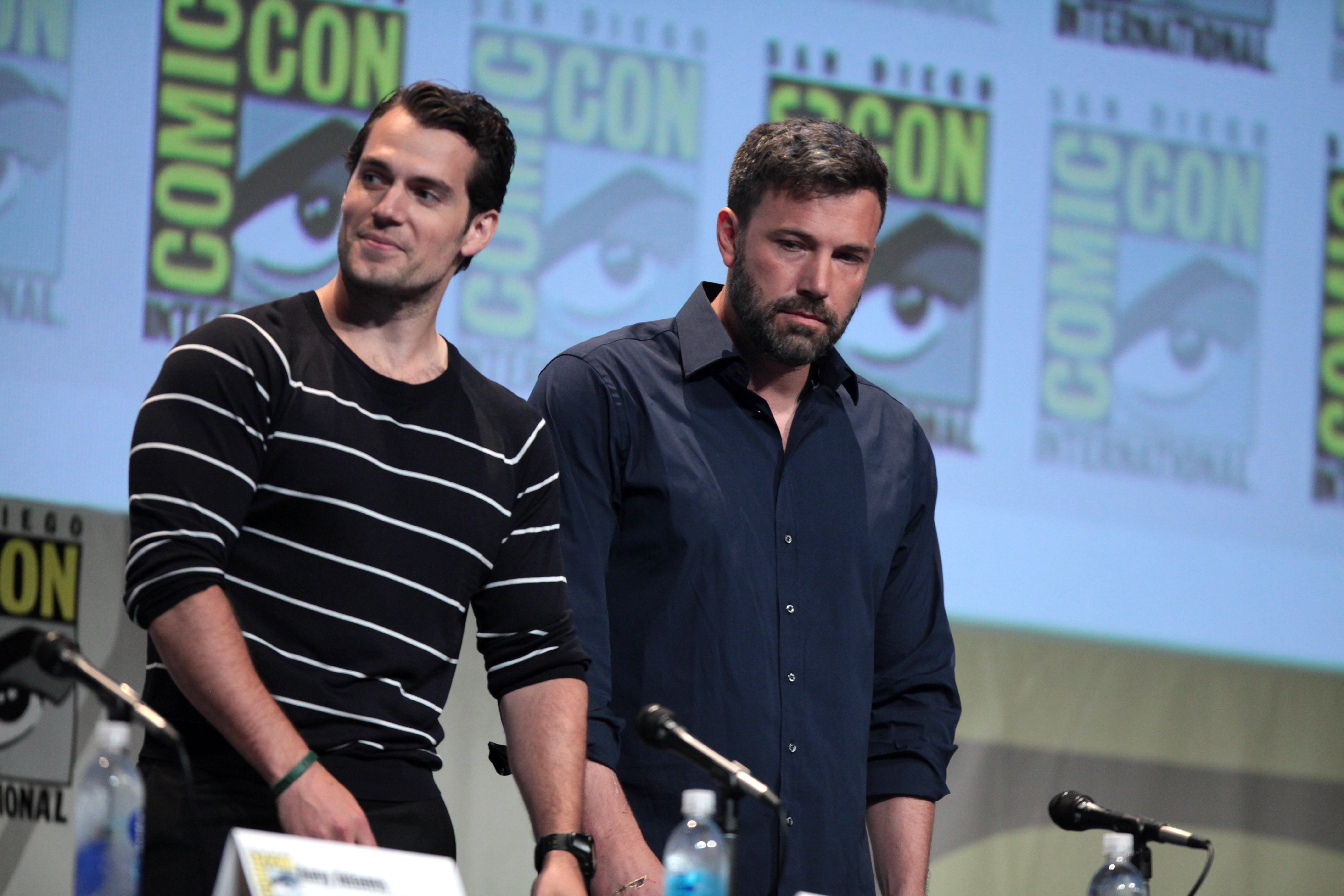 Henry Cavill and Ben Affleck speaking at the 2015 San Diego Comic Con International, for "Batman v Superman: Dawn of Justice", at the San Diego Convention Center in San Diego, California.